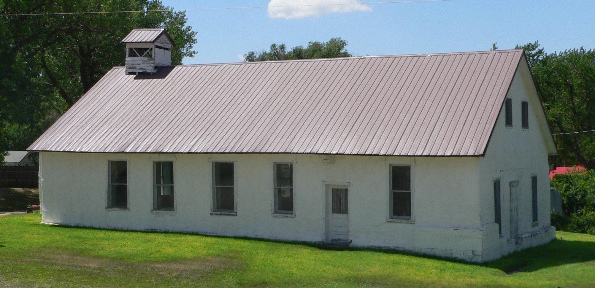 Pilgrim Holiness Church in Arthur, Nebraska; seen from the southeast. The church was built out of baled straw in 1928. It is listed in the National Register of Historic Places.